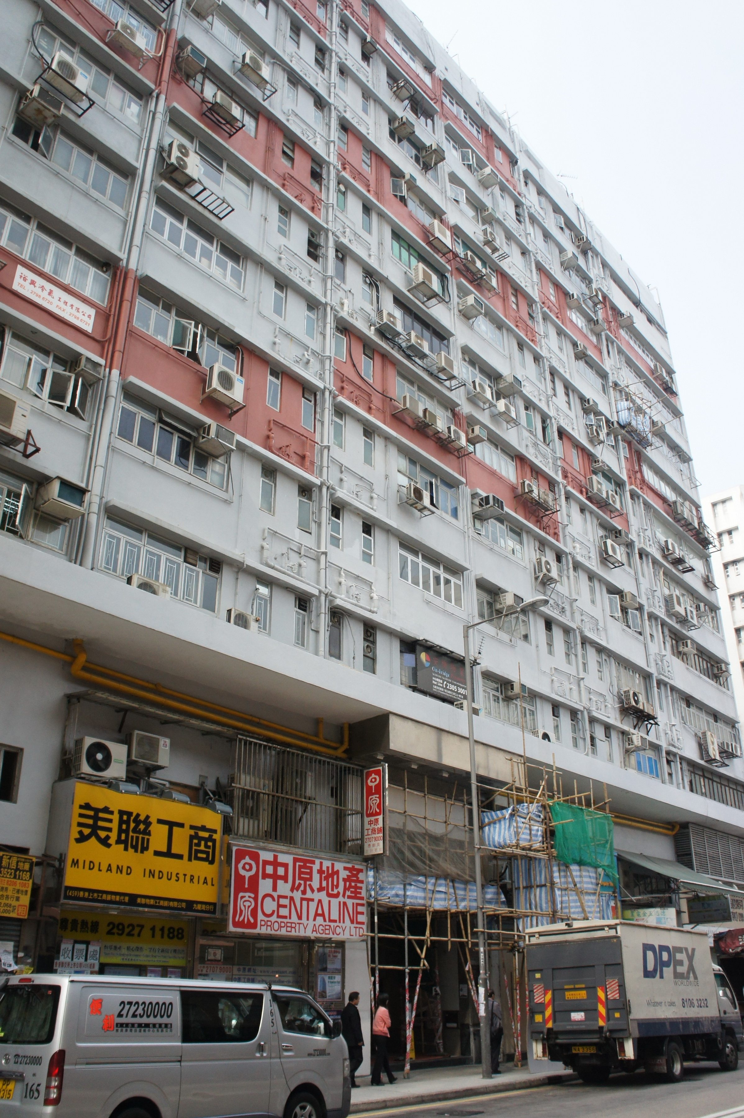 Kowloon Bay Industrial Centre, Kowloon Bay, Hong Kong.